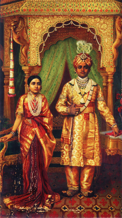 Portrait of H.H Sri Krishnaraja Wadiyar IV and Rana Prathap Kumari of Kathiawar (oil on canvas)